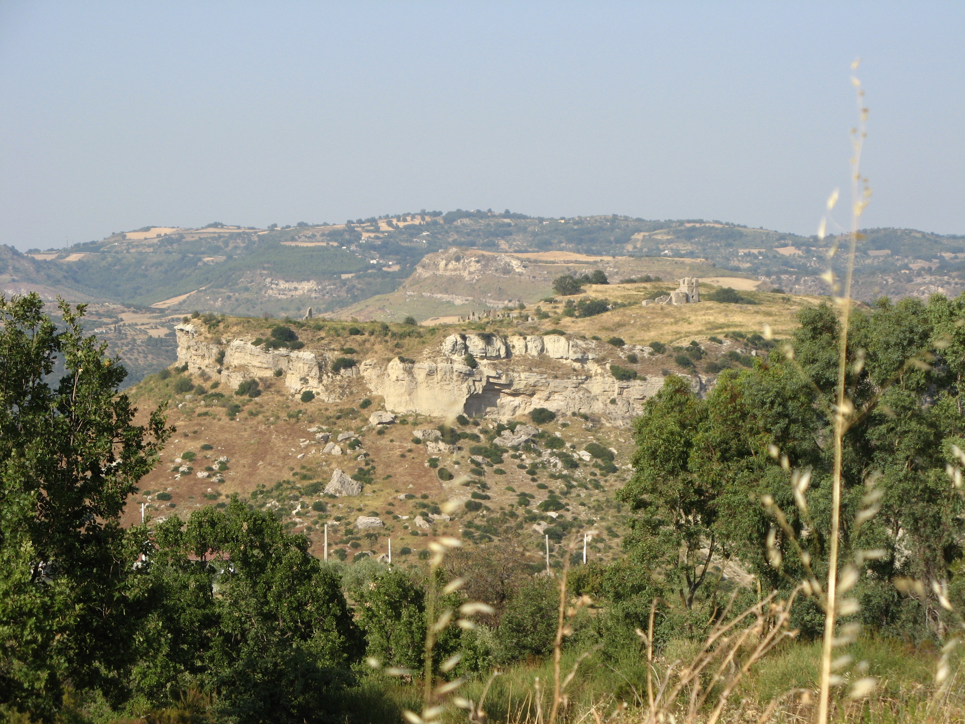 Ruins of Cerenzia